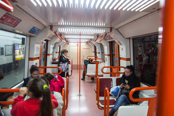 The interior of a CAF 6000 train on Line B of the Buenos Aires Underground